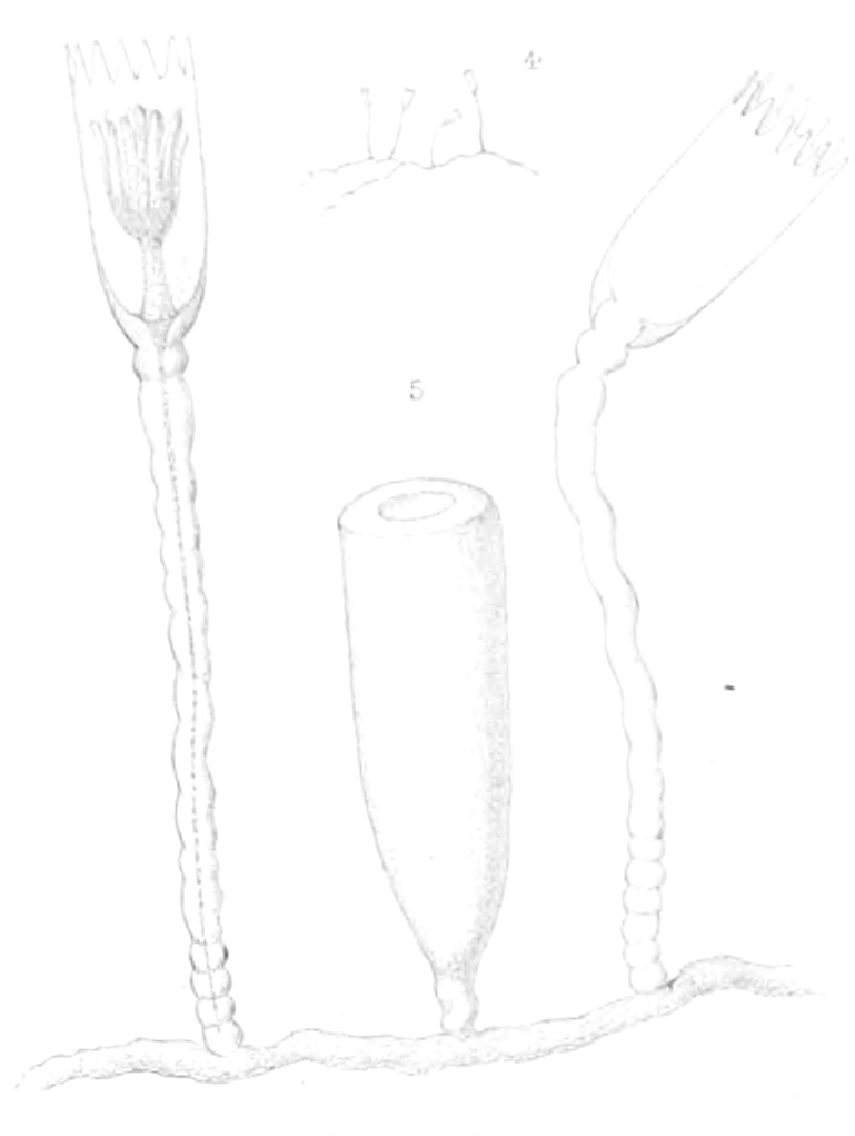 Coryne (?) conferta Allman = Coryne conferta Allman, 1876, habitus of colonies Coryne (?) conferta Allman = Coryne conferta Allman, 1876, habitus of colony Coryne (?) conferta Allman = Coryne conferta Allman, 1876, branch tip with 2 hydranths Campanularia? cylindrica Allman =? Campanularia hicksoni Totton 1930, habitus of colony Campanularia? cylindrica Allman =? Campanularia hicksoni Totton 1930, branch section with 2 hydrothecae (one showing hydranth) and a gonangium Hypanthea repens Allman = Silicularia rosea Meyen, 1834 f. subantarctica, habitus of colony Hypanthea repens Allman = Silicularia rosea Meyen, 1834 f. subantarctica, branch section with hydranth in hydrotheca and 3 gonangia Halecium mutilum Allman = Halecium mutilum Allman, 1876, habitus of colony Halecium mutilum Allman = Halecium mutilum Allman, 1876, branch section with hydrothecae Sertularella unilateralis Allman = Sertularella antarctica Hartlaub, 1901, habitus of colonies Sertularella unilateralis Allman = Sertularella antarctica Hartlaub, 1901, branch section with 4 hydrothecae and a gonangium